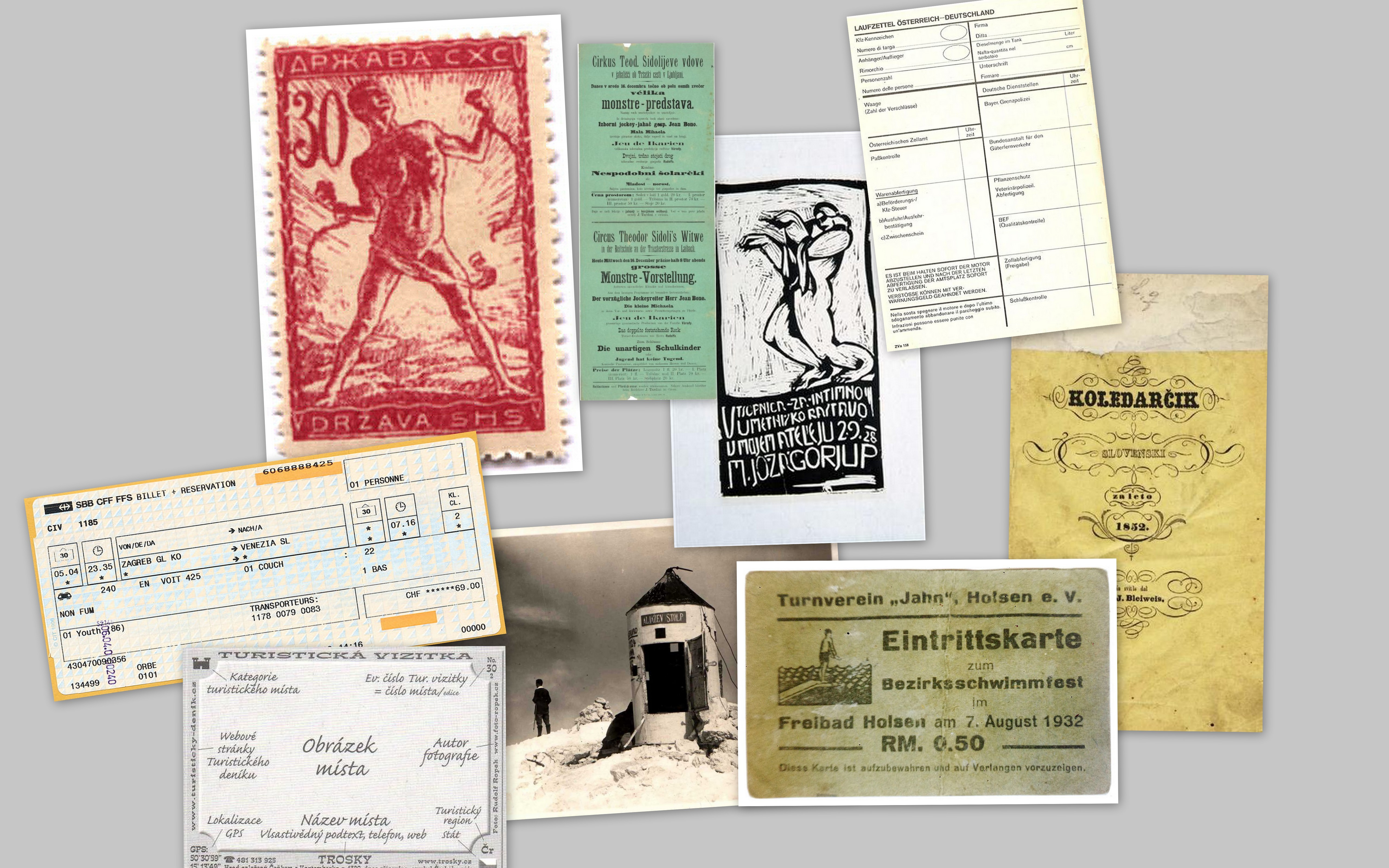 Ephemera (collage of File:Znamka Verigar 30.jpg File:Janez Bleiweis - Koledarčik slovenski.pdf File:Razglednica Aljaževega stolpa 1925 (2).jpg File:Zagreb-Venezia 050410 EN240.jpg File:Jože Gorjup - Vstopnica.png File:Eintrittskarte zum Bezirksschwimmfest 1932 - 0.50 Pfennig.jpg File:Plakat za Cirkus Teod. Sidolijeve vdove 1891 (3).jpg File:Laufzettel A - D.jpg File:Turistická vizitka popis.jpg